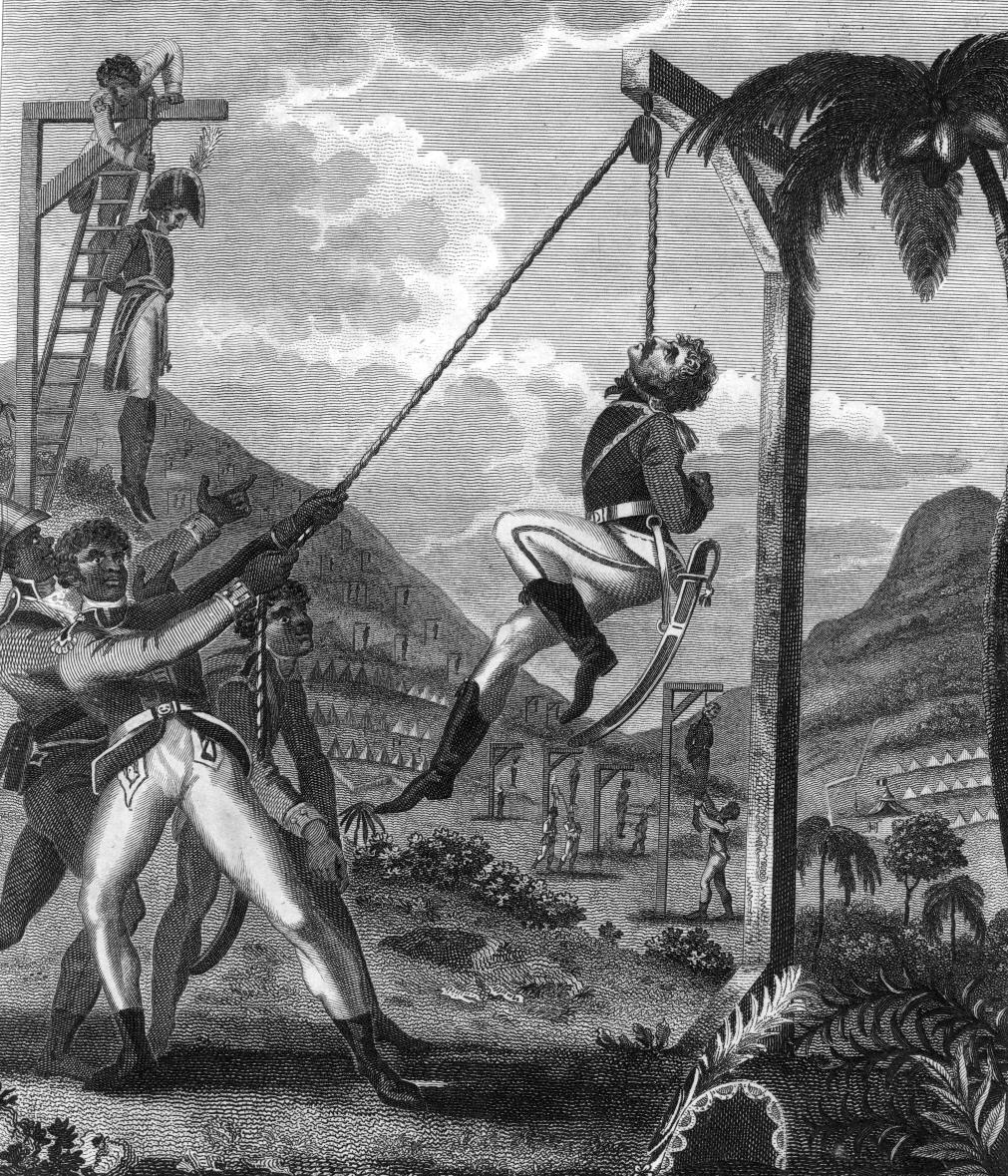 "Revenge taken by the Black Army for the Cruelties practised on them by the French". Illustration by British soldier and self-admitted "admirer of Toussaint L'Ouverture" (chapt.5) Marcus Rainsford from his 1805 book "An historical account of the black empire of Hayti".